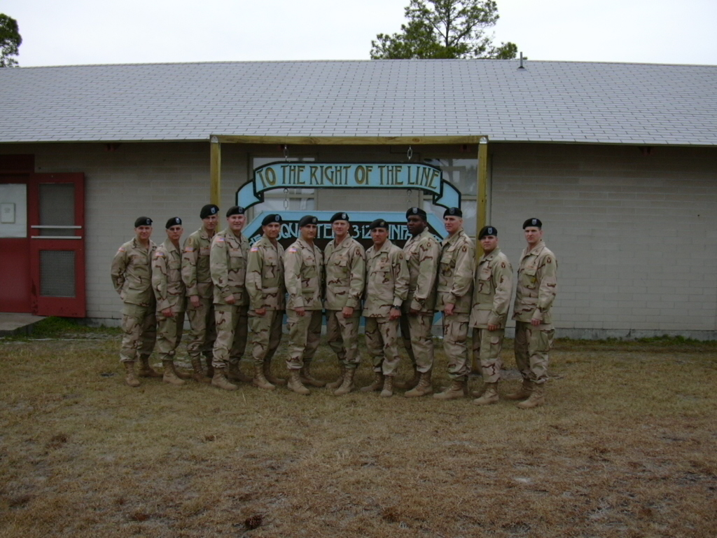 3/124th Infantry staff prior to Iraq invasion, 2003. LTC Thad Hill, commanding.